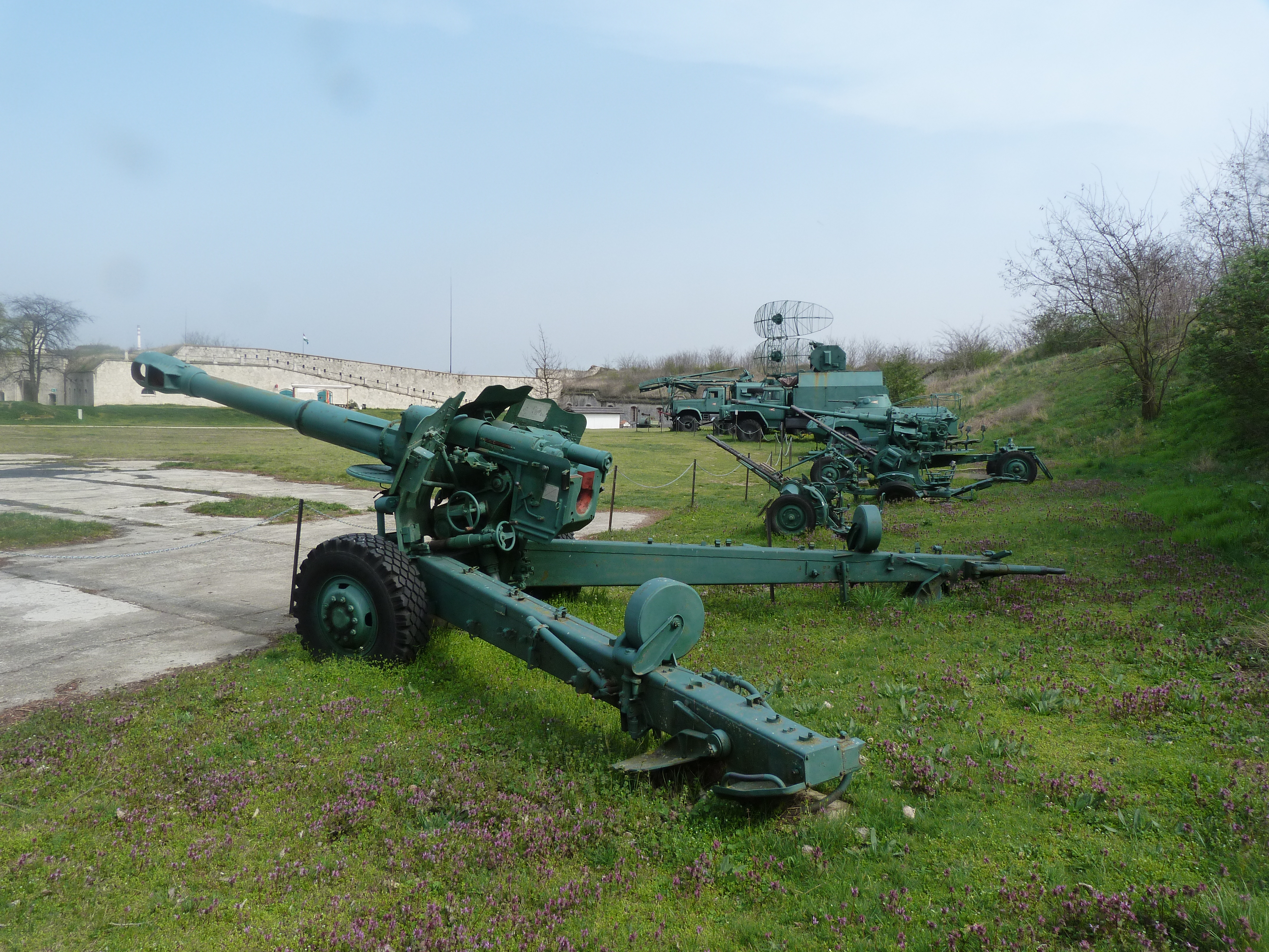 Live on the 31st of March, 2014. Komárom, Hungary. The Monostori Fortress. Open air exibition of the military equipement of the Hungarian People's Army. Photos of the parts and the fortress itself in the Metapolisz DVD line. ©© Derzsi Elekes Andor, Budapest, 2014, You are authorised to use these photos and vids under Creative Commons – even for commercial, for profit purposes. Photos must be attributed to Derzsi Elekes Andor. All of the photos and vids in the Metapolisz DVD line are under Creative Commons and can be used even for commercial – for profit – purposes. Recommended Citation Derzsi Elekes Andor: Metapolisz DVD line